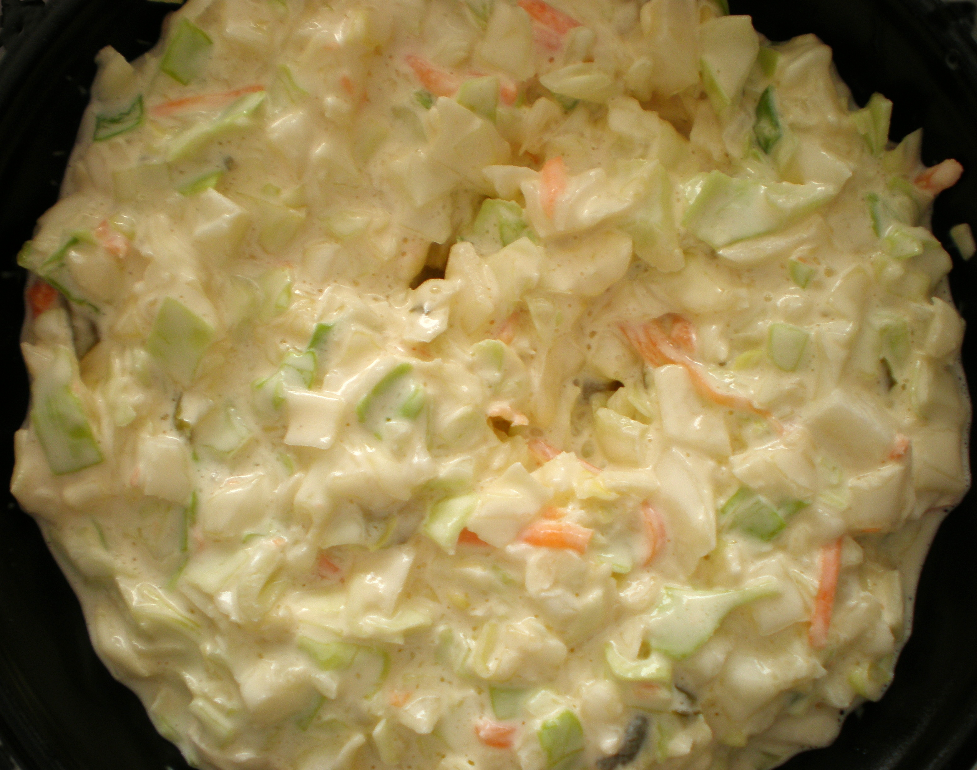 Popeyes Chicken & Biscuits coleslaw